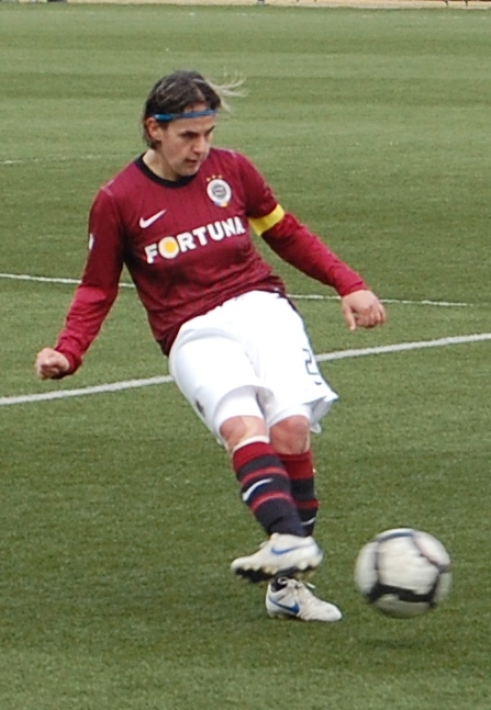 Women's association footballer and captain of AC Sparta Praha Iva Mocová in action against Brno in the Pohár KFŽ